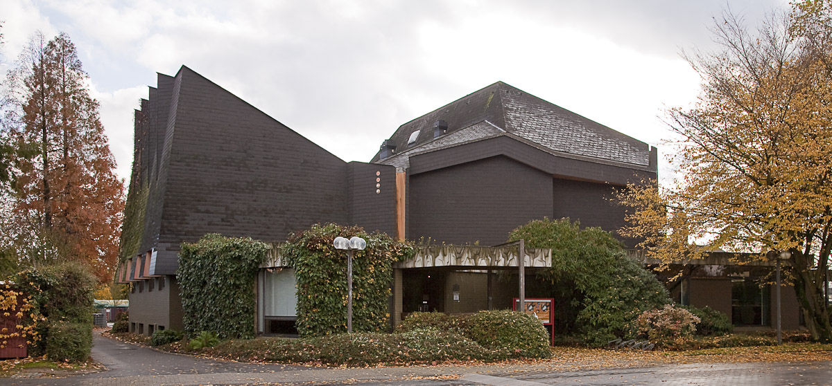 The Werner-Jaeger-Hall as seen from the North.